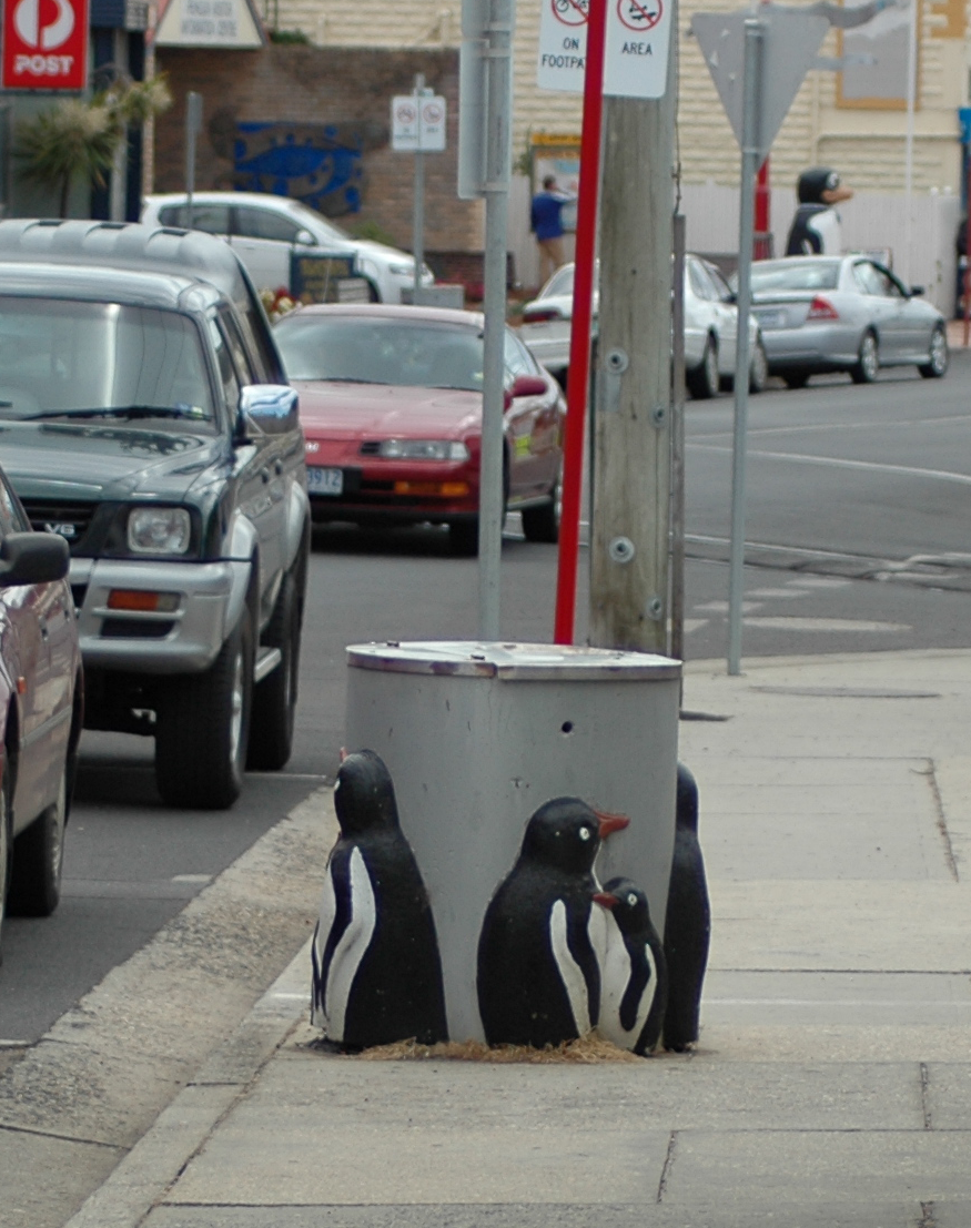 Featuring a "penguin" themed rubbish bin. Taken 3 Dec 2006 in town of Penguin, Tasmania